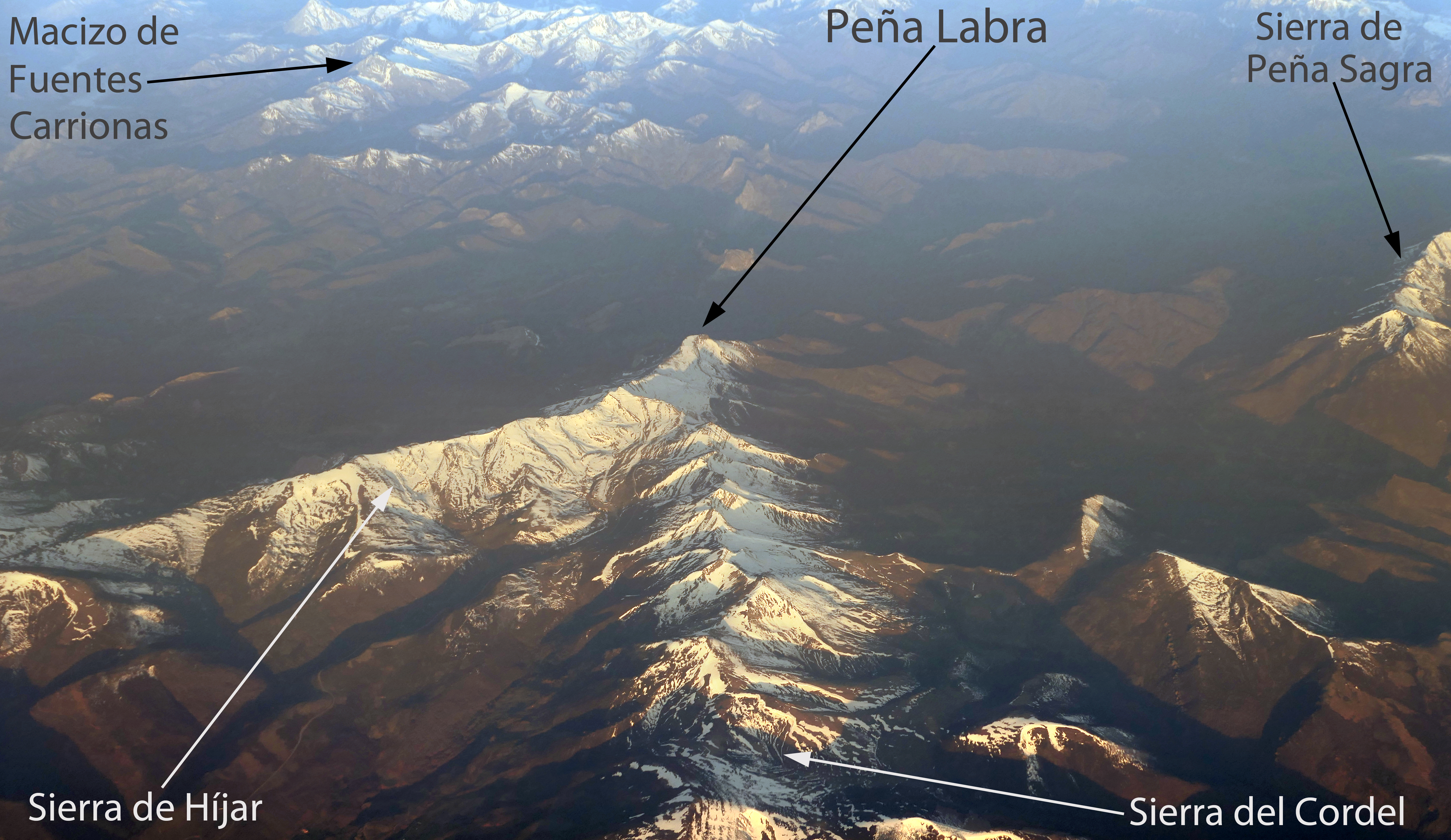 An aerial view of Peña Labra, a mountain in the north of Spain. Included in the photo are the Sierra de Híjar, the Sierra del Cordel, the Sierra de Peña Sagra, and the Macizo de Fuentes Carionas.